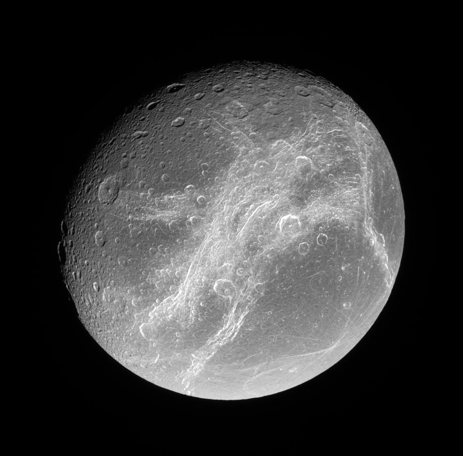 Cassini image of Dione, highlighting wispy terrain This splendid view showcases Dione's tortured complex of bright cliffs. At lower right is the feature called Cassandra, exhibiting linear rays extending in multiple directions. The trailing hemisphere of Dione (1,126 kilometers, or 700 miles across) is seen here. North is up. The image was taken in polarized green light with the Cassini spacecraft narrow-angle camera on July 24, 2006 at a distance of approximately 263,000 kilometers (163,000 miles) from Dione. Image scale is 2 kilometers (1 mile) per pixel.